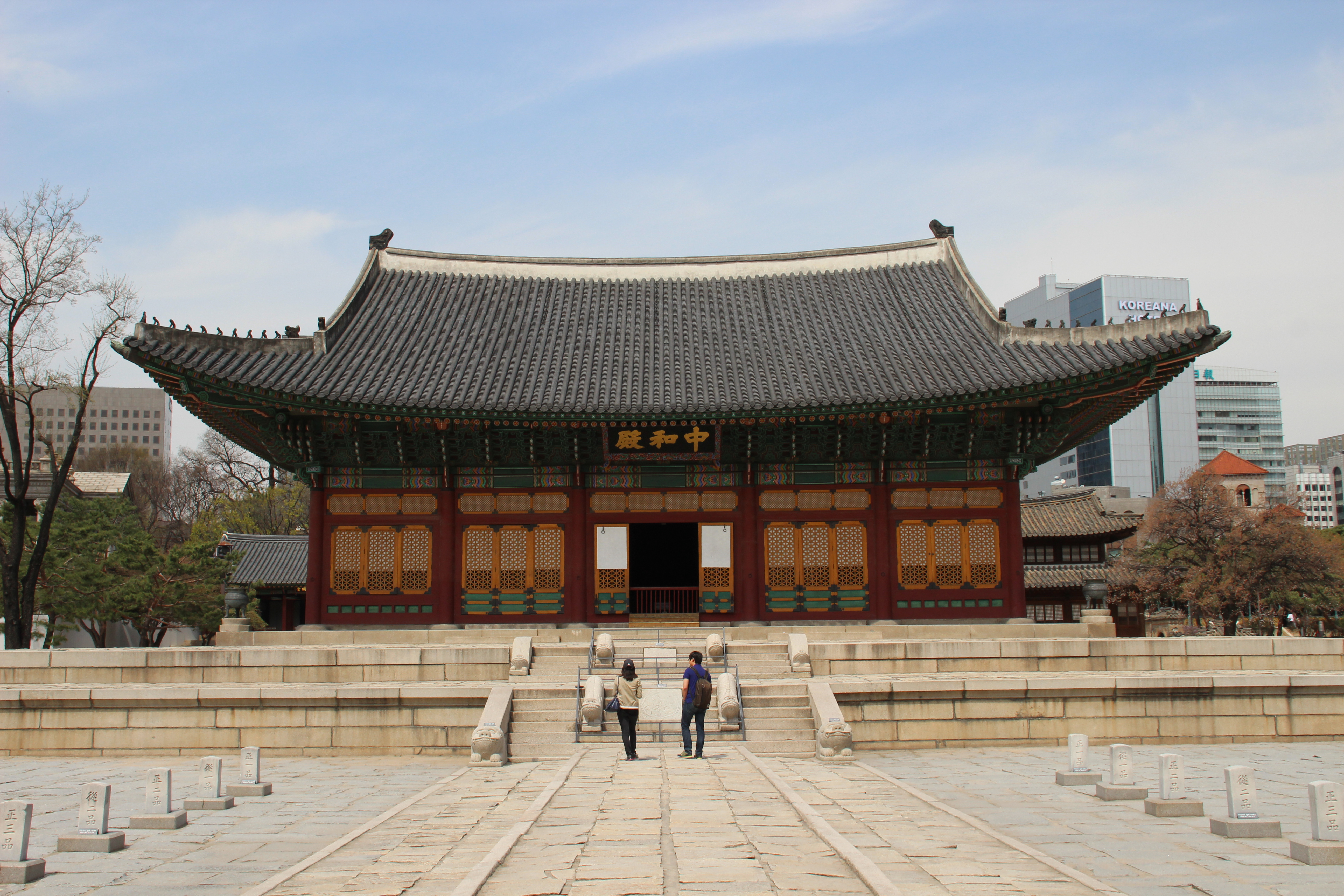 Deoksugung